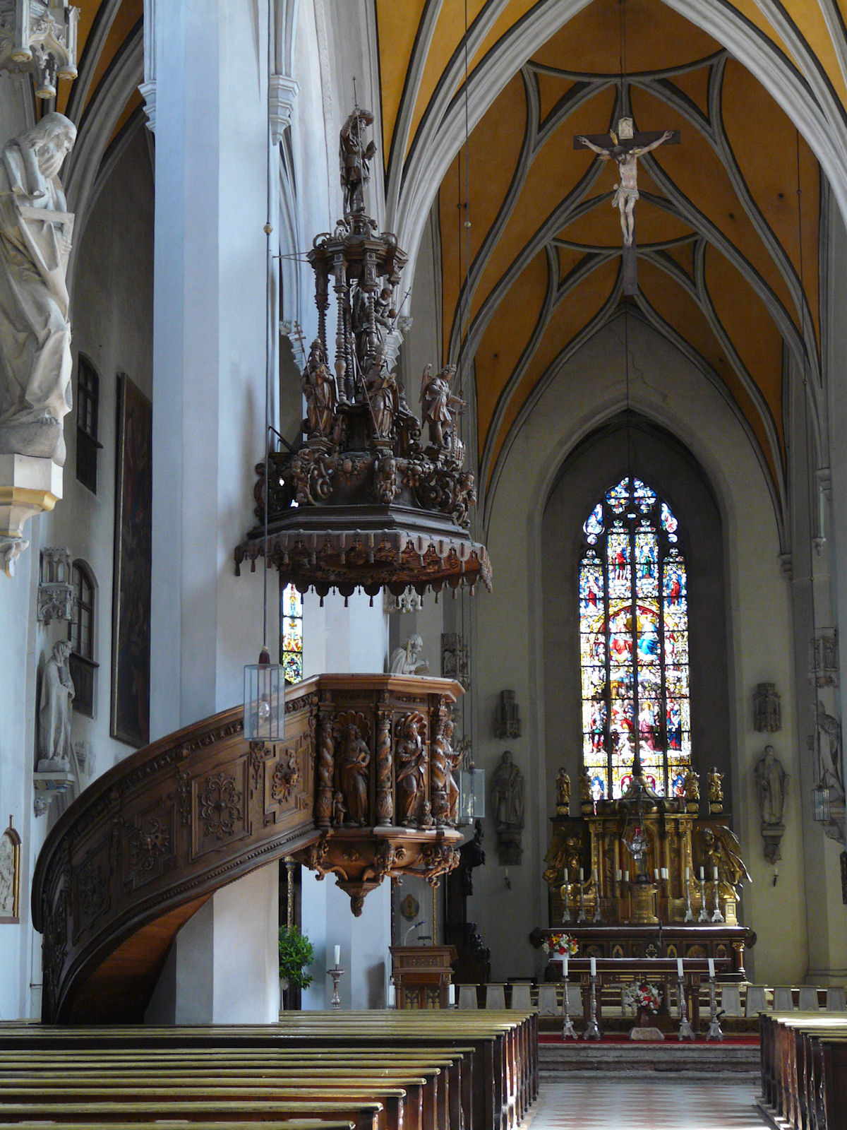 Church of St. Jakob, (Wasserburg am Inn), Upper Bavaria, Germany